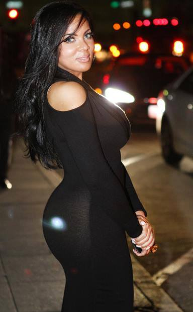 Photograph of Victoria Vann, Editor-in-chief of Beverage Industry News Magazine, at a Patron Tequila Event at The Wilshire Ebell Theatre, Los Angeles, California, July, 2014.